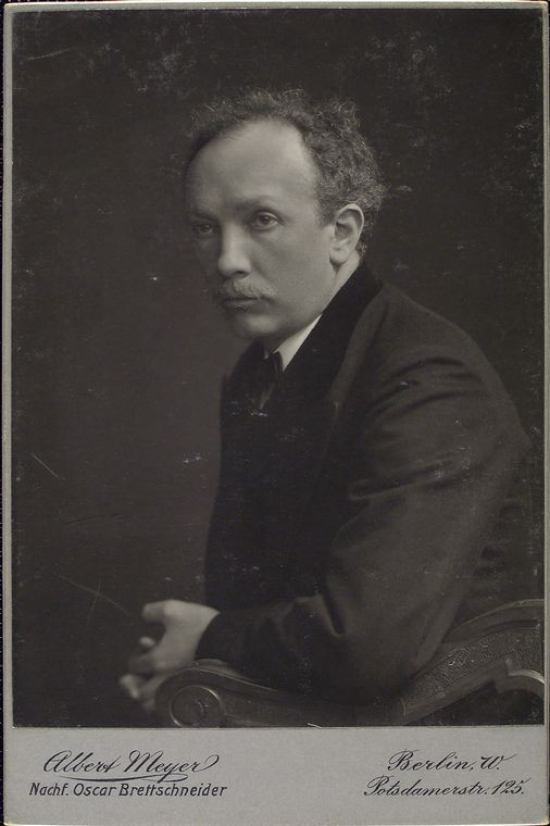 German Romantic composer Richard Strauss